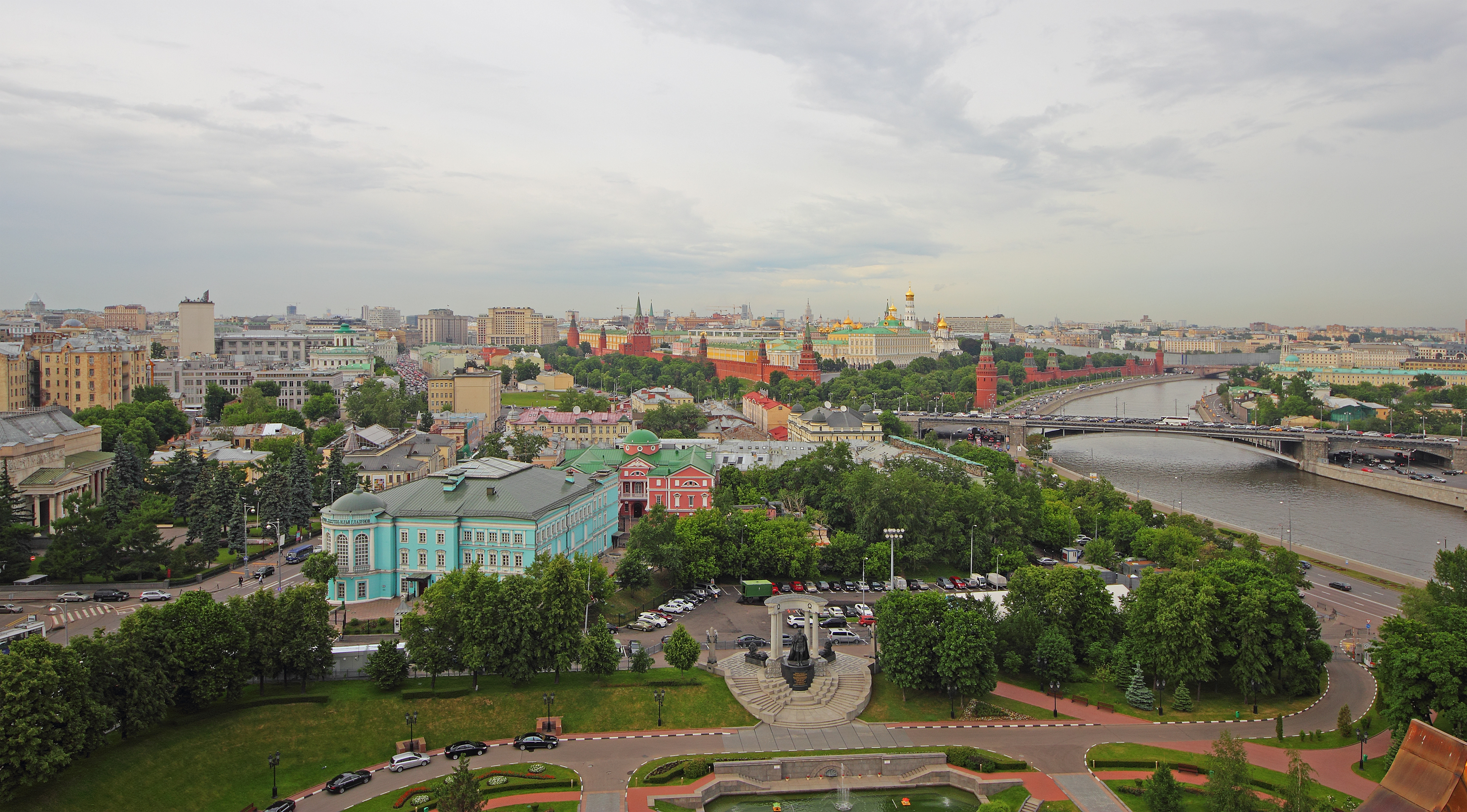 View from one of the four visitor's viewing platforms of the Cathedral of Christ the Saviour in Moscow.